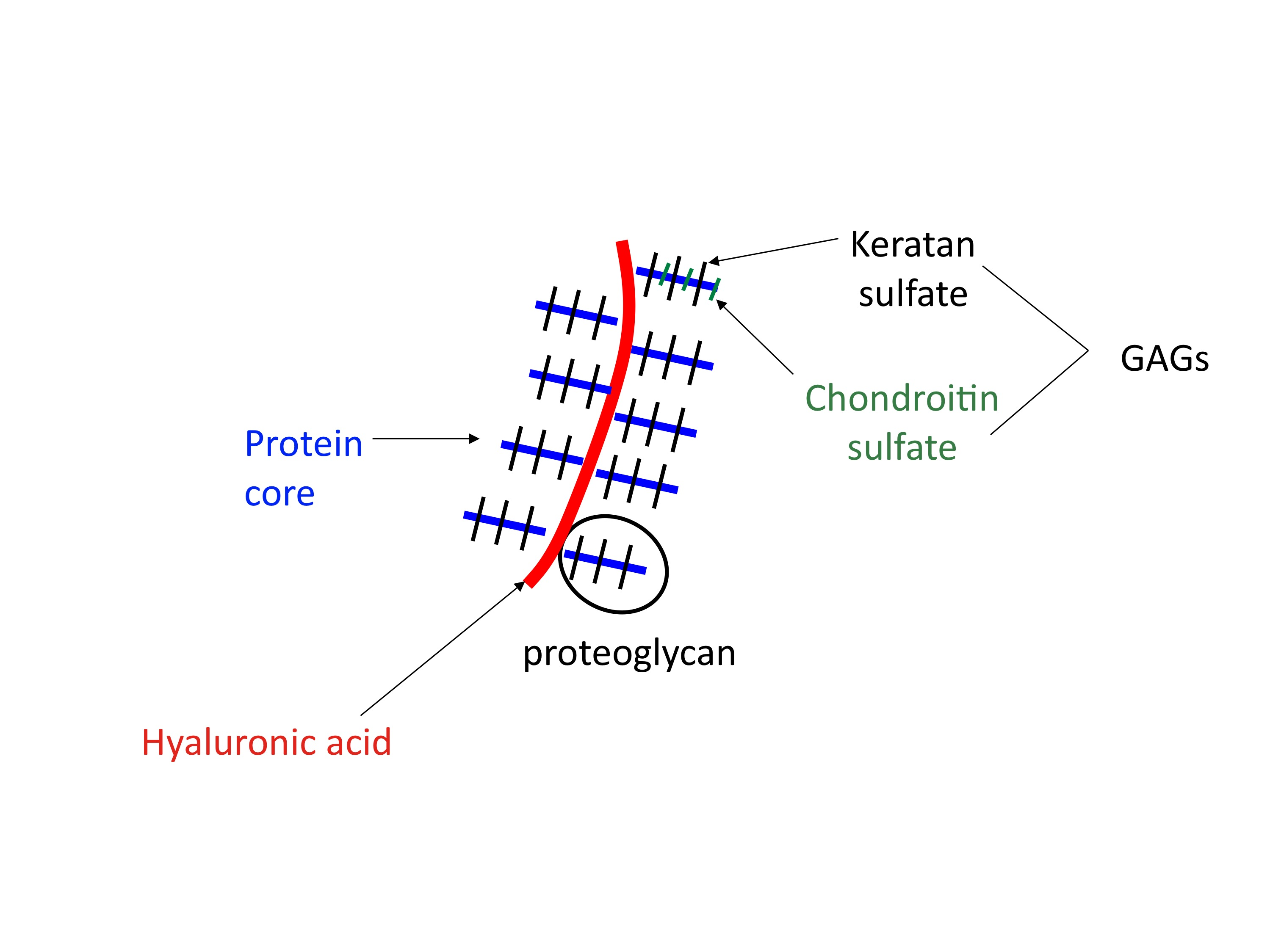 glycosaminoglycans, proteoglycan, glycoprotein, keratan sulfate, cartilage matrix